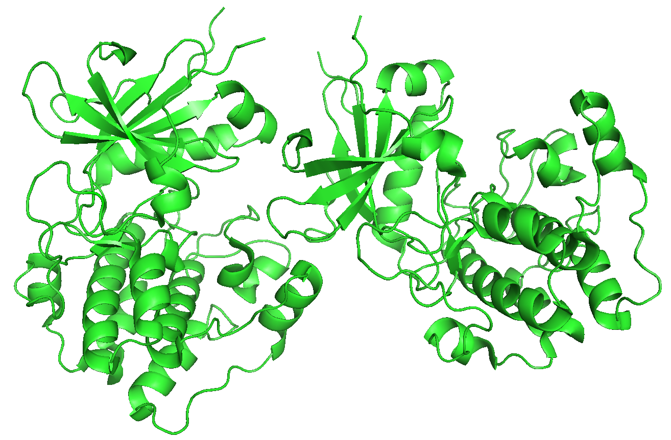 Secondary/tertiary structure ribbon diagram of v-akt murine thymoma viral oncogene homolog 2 (AKT2, PDB 3D0E) rendered using PyMol (DeLano Scientific)